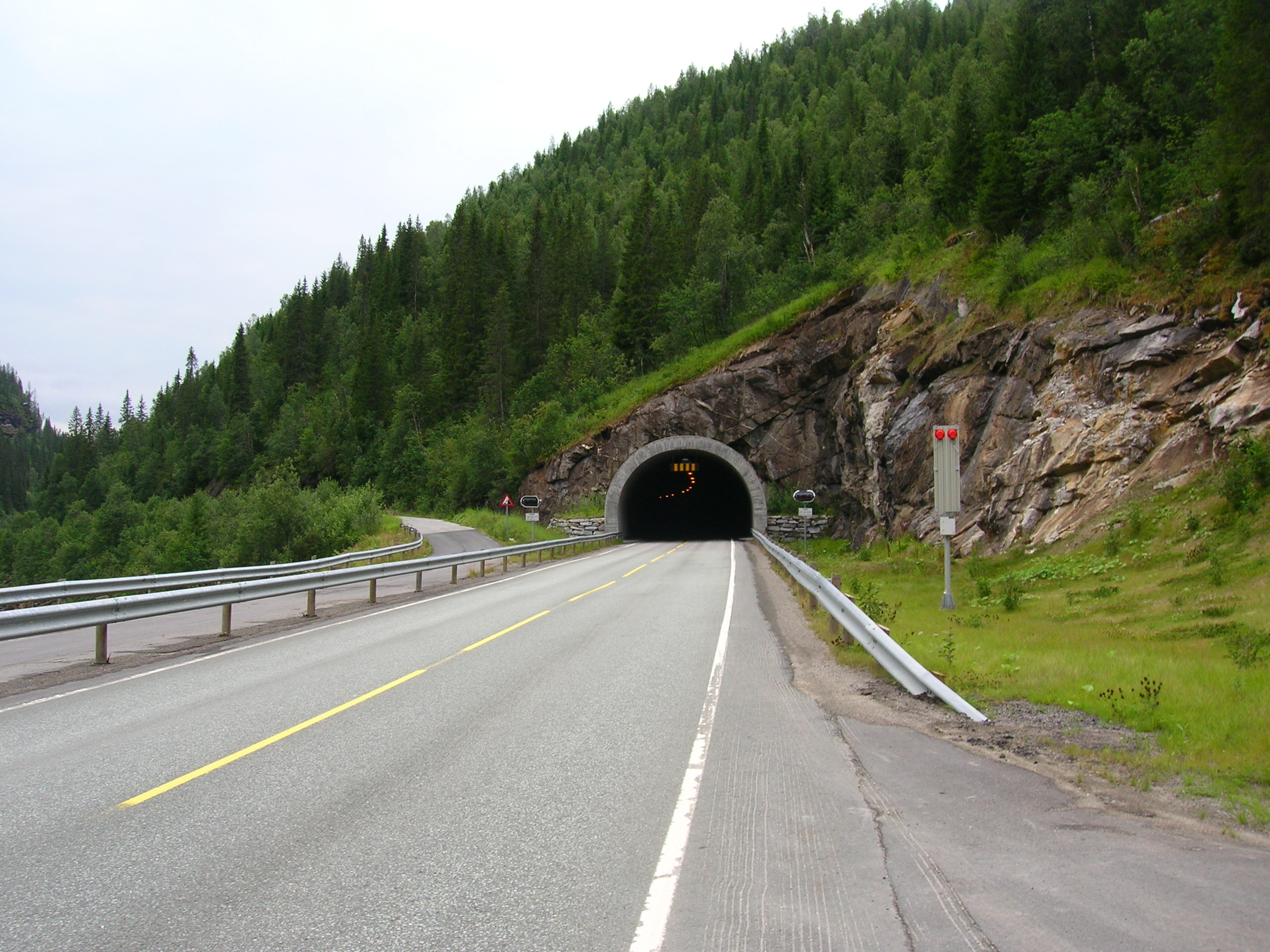 The tunnel of Illhøllia, seen from the north. Rana municipality, county of Nordland, Norway, Photo 6 August, 2007 with a Nikon Coolpix 5600 5,1 Megapixel camera.